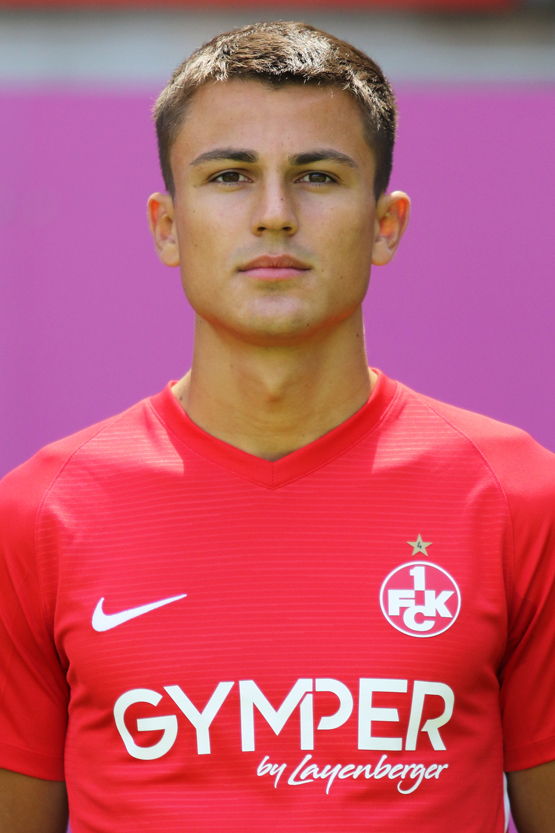 Antonio Jonjic (Nr. 38)